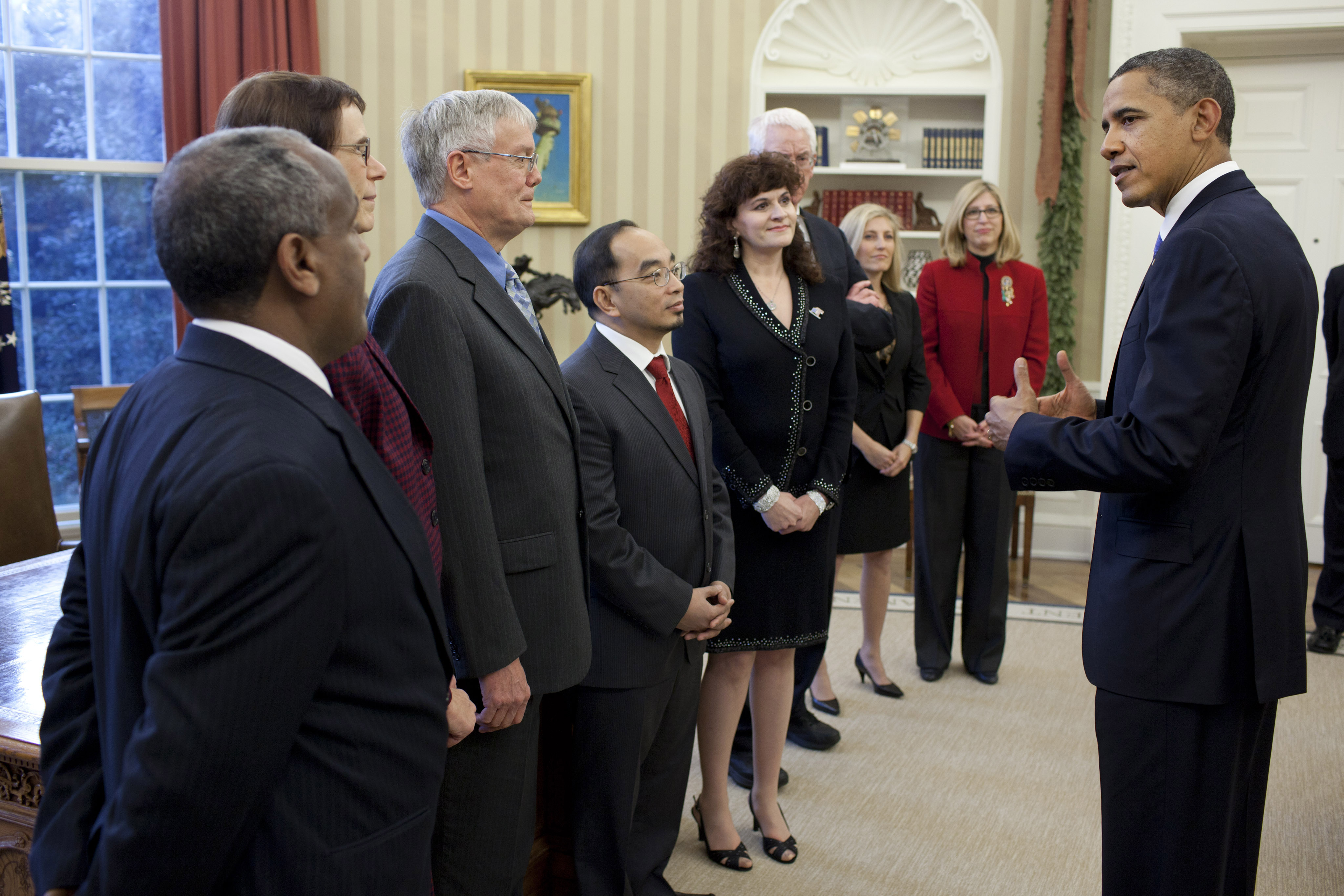 President Barack Obama greets and poses with the 2010 Presidential Awards for Excellence in Science, Mathematics and Engineering Mentoring (PAESMEM) recipients in the Oval Office, December 12, 2011. Pictured left to right are: Solomon Bililign, North Carolina Agricultural & Technical State University, N.C.; Peggy Cebe, Tufts University, Mass.; Roy Clarke, University of Michigan Ann Arbor, Mich.; Amelito Enriquez, Cañada College, Calif.; Karen Panetta, Tufts University, Mass.; Charles Thornton, ACE Mentor Program of America, Conn.; Shara Fisler, Ocean Discovery Institute, Calif.; and Teresa Woodruff, Women's Health Science Program for High School Girls and Beyond, Northwestern University Feinberg School of Medicine, Ill. (Official White House Photo by Pete Souza)